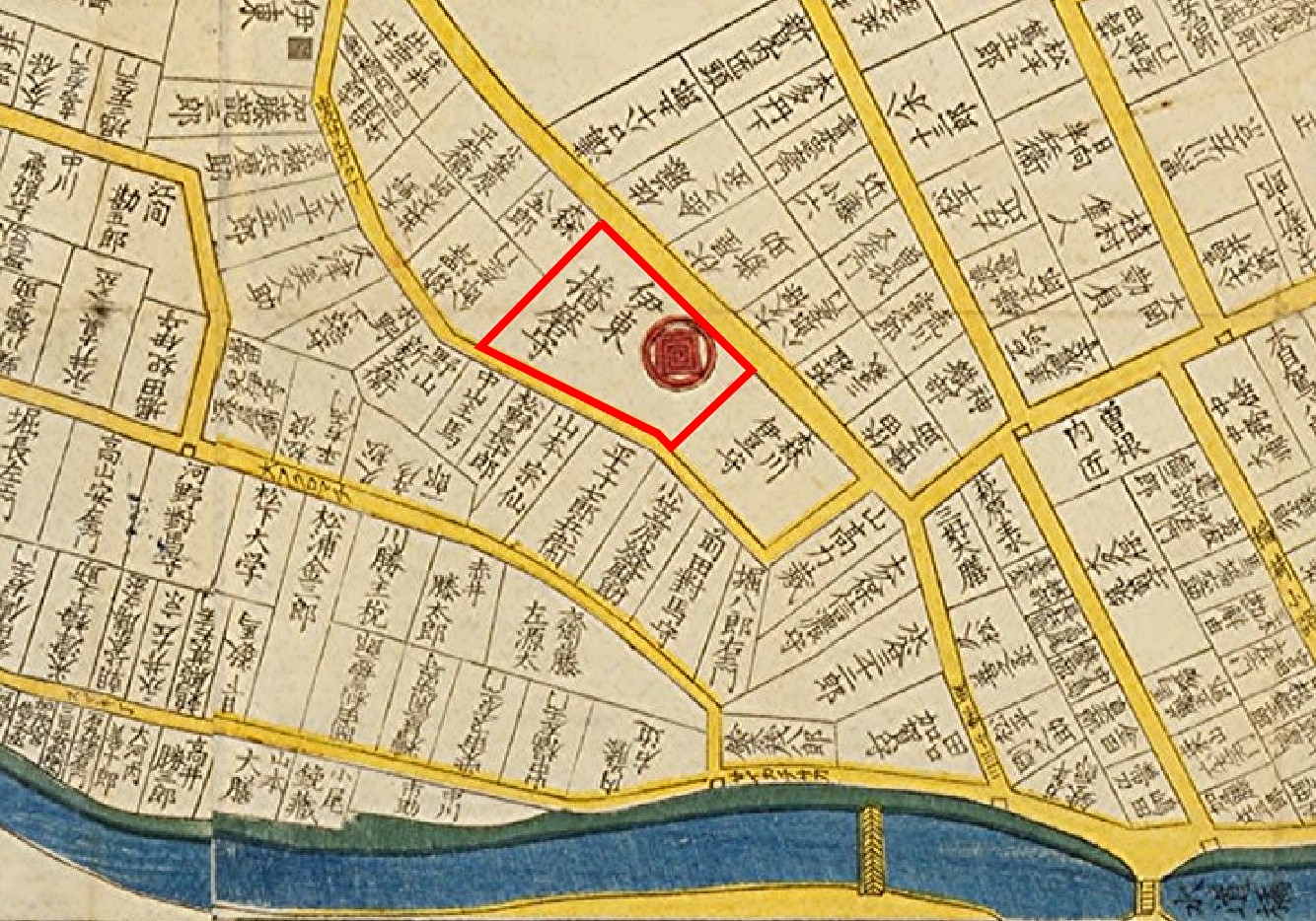 Residence of Itô clan at Edo 2